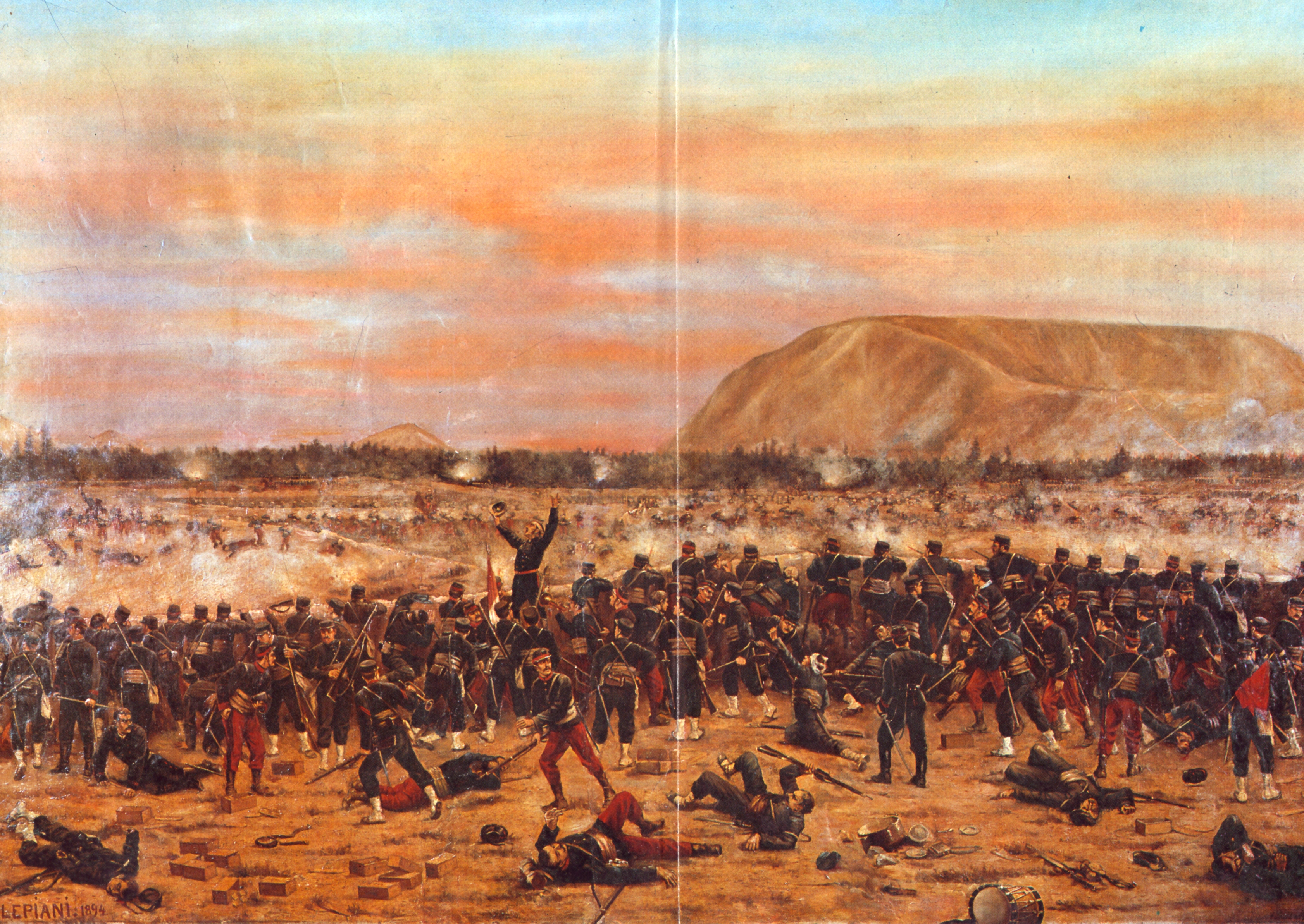 The Miraflores line of defense on the battle of Miraflores.